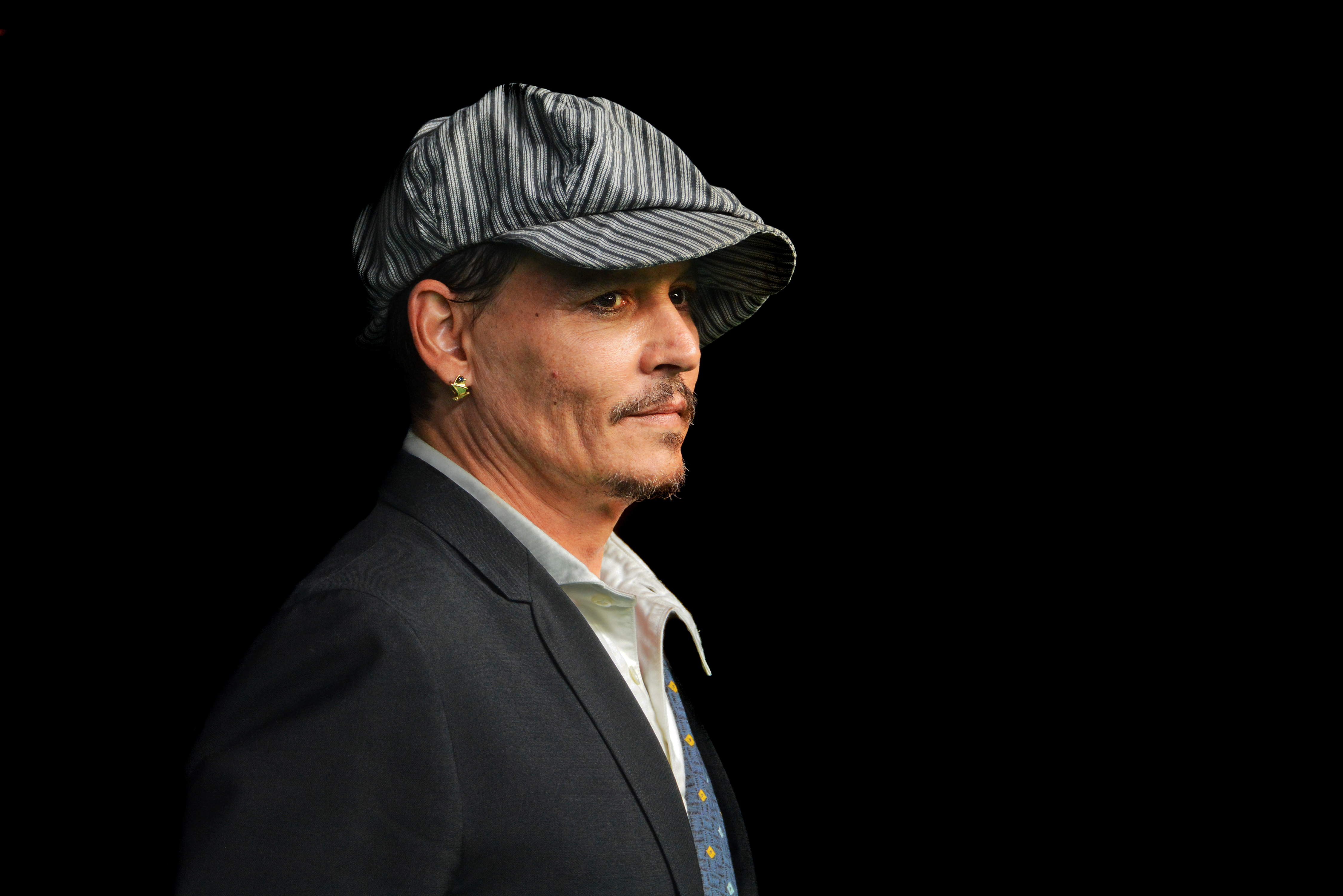 Johnny Depp attends the "Richard Says Goodbye" photocall during the 14th Zurich Film Festival on October 5, 2018 in Switzerland.